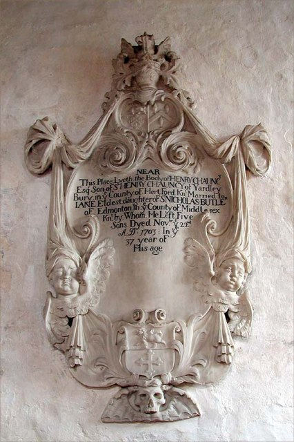 St Lawrence Church, Ardeley, Herts - Wall monument